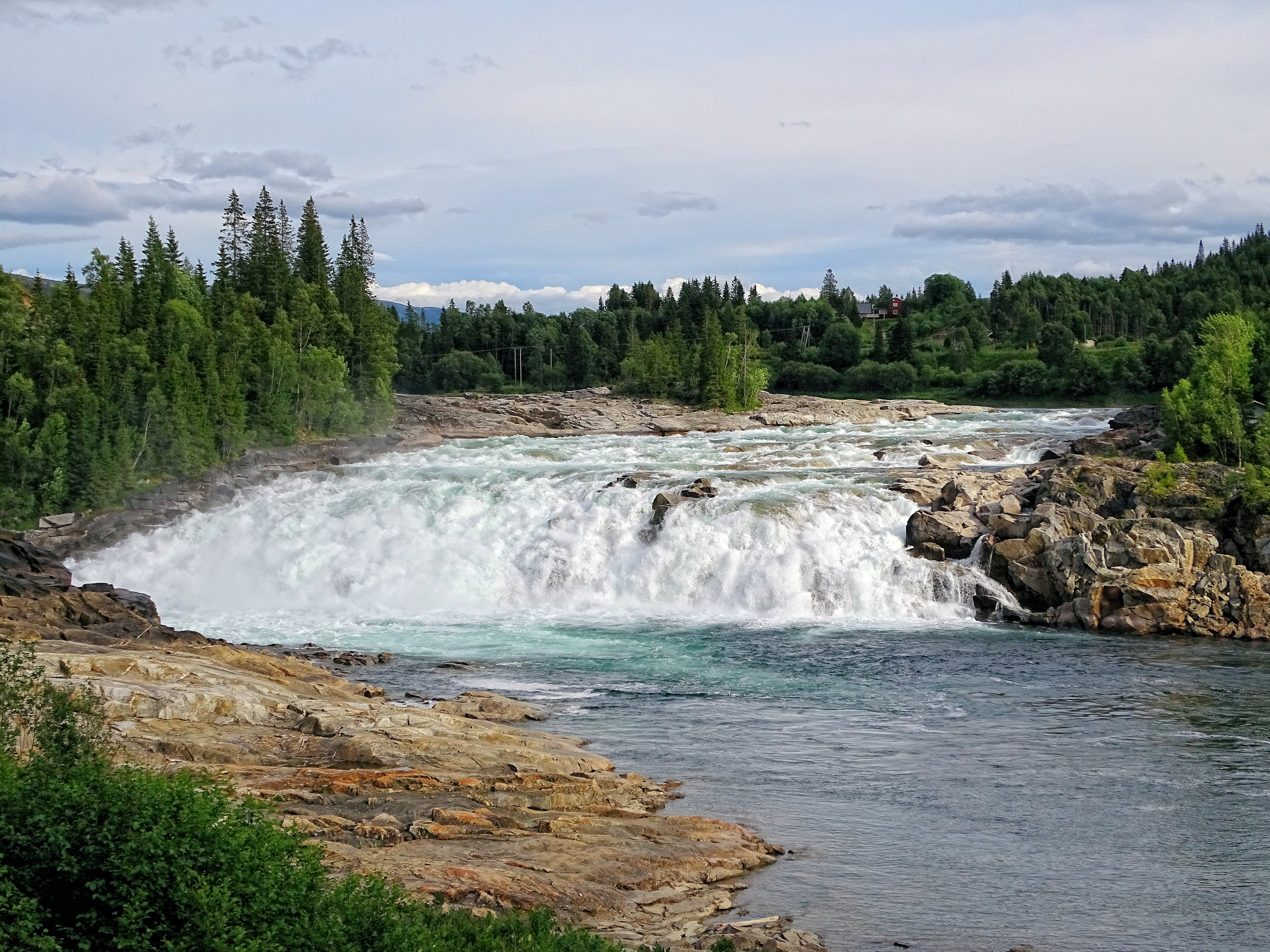 Laksforsen is a major waterfall in the Vefsna river.